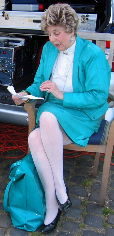 Uta Ranke-Heinemann, World Youth Day 2005, Cologne, Germany